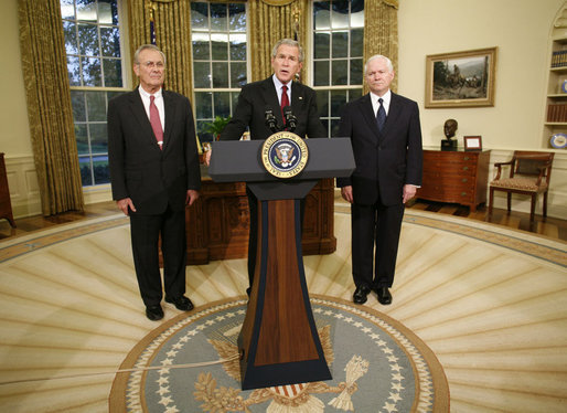 Flanked by Secretary of Defense Donald Rumsfeld, left, and Dr. Robert Gates, President George W. Bush announces the resignation of Secretary Rumsfeld Wednesday, Nov. 8, 2006, and the intention to nominate Dr. Gates as his successor.